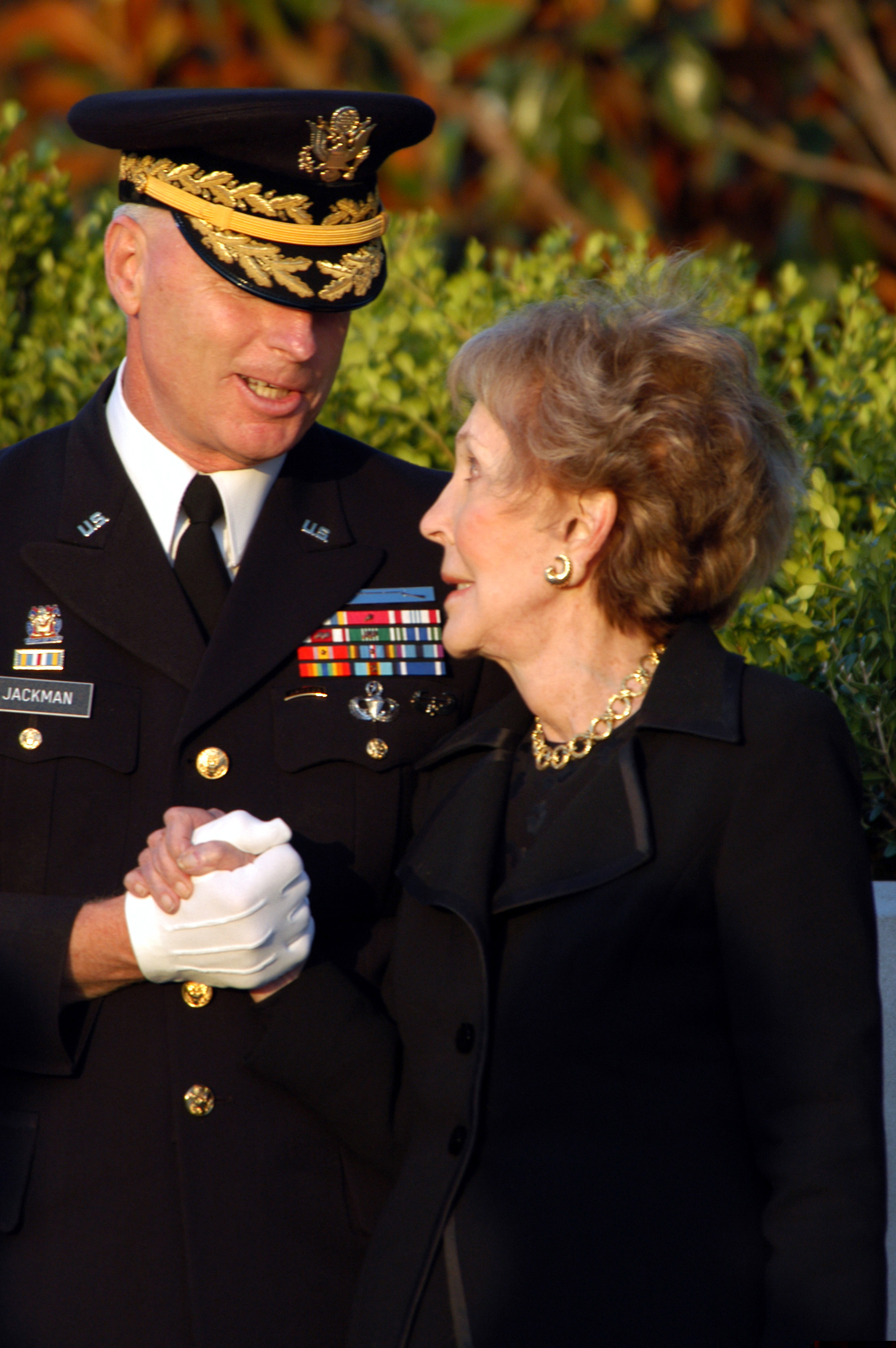 US Army (USA) Major General (MGEN) Galen Jackman, Command General, USA Military District of Washington, escorts Former First Lady Nancy Reagan during internment services held at the Ronald Reagan Presidential Library in Simi Valley, California (CA). The observance concluded the weeklong state funeral services for Former US President Ronald Reagan, 40th President of the United States.